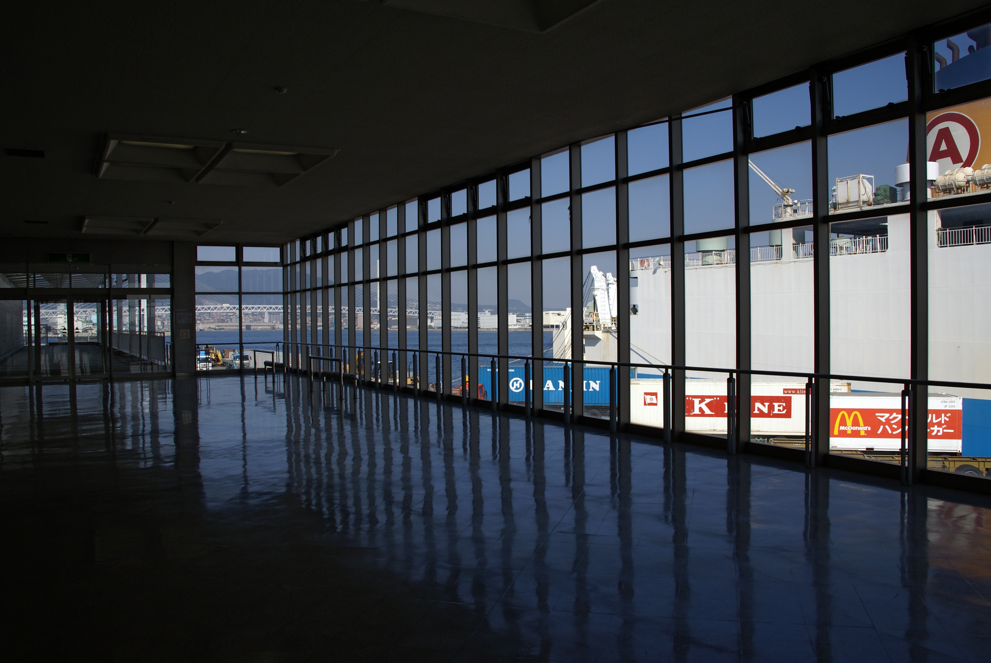 "Ryukyu Express" at Rokko Passenger Ship Terminal of the Kobe harbor ( Kobe, Hyogo, Japan )